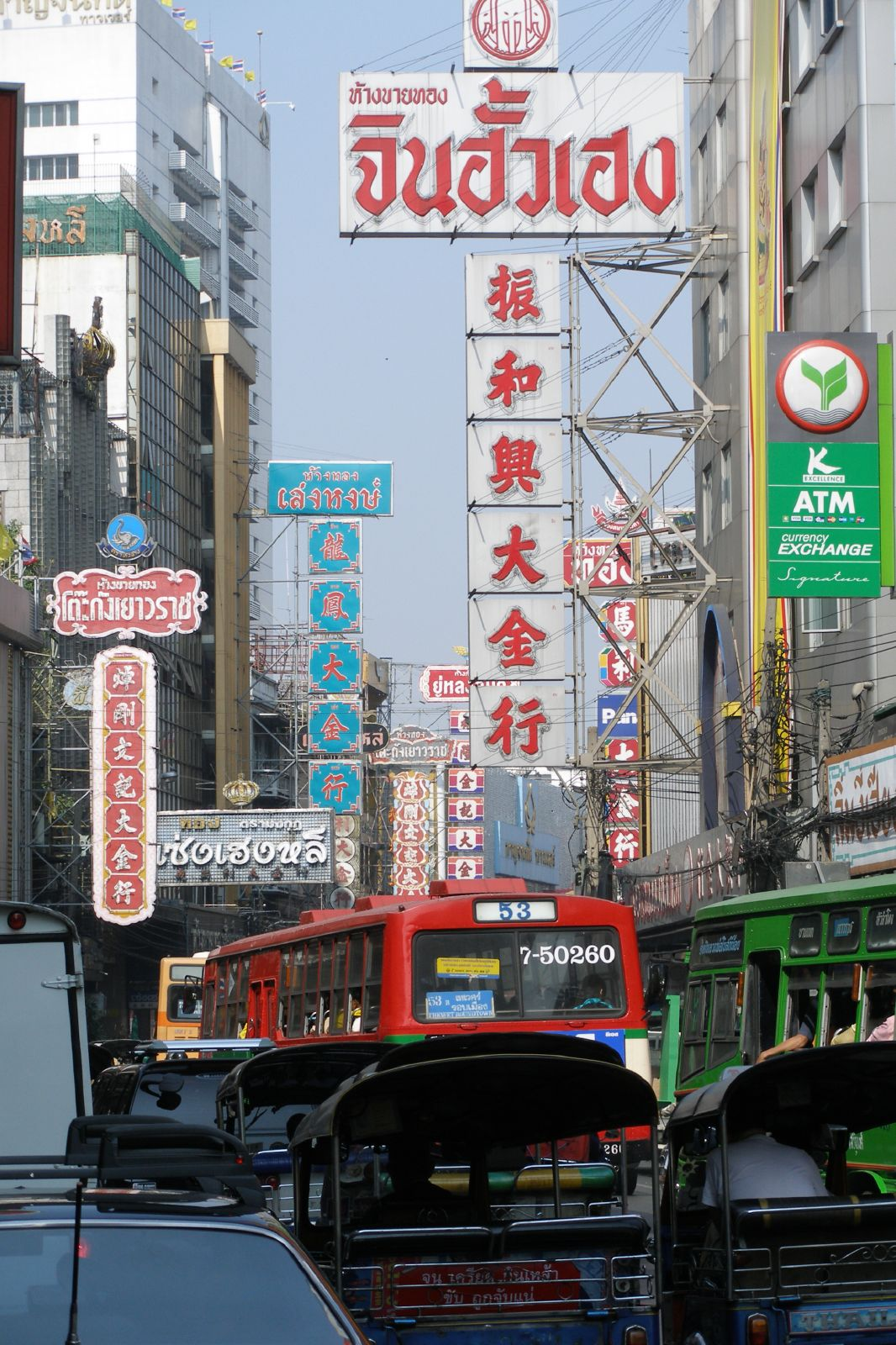 Yaowarat Road, Bangkok